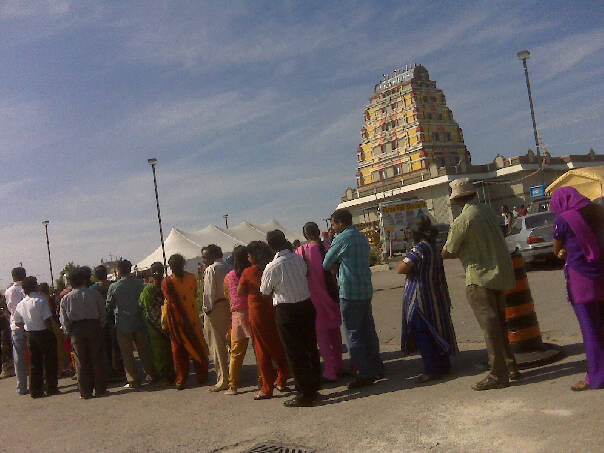 People liningup outside the Ayyappan Temple (Mostly Canadians of Sri Lankan Tamils origin) for a special pooja prior to the conscretion ceremony. About 5000 were estimated to have stood in line.